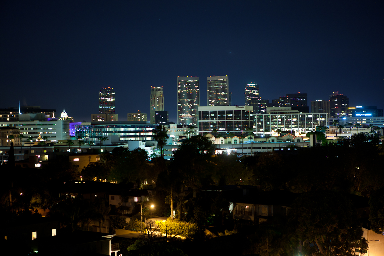 Downtown Beverly Hills as seen at night.